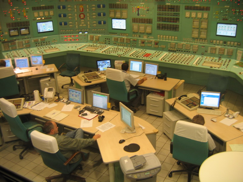 Paks Nuclear Power Plant controlroom